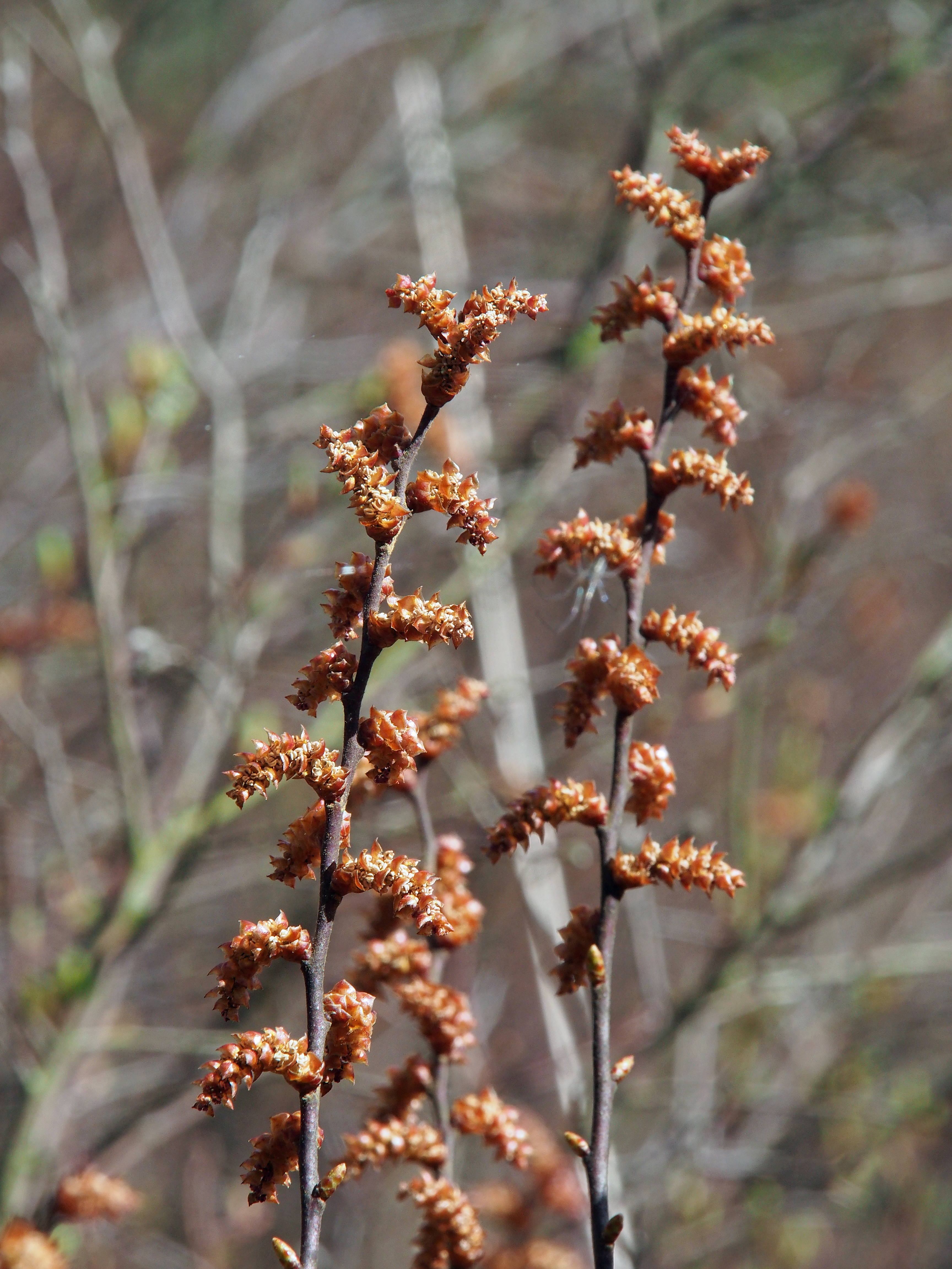 Myrica gale: Male plant, Southern Heath, Lower Saxony, Germany